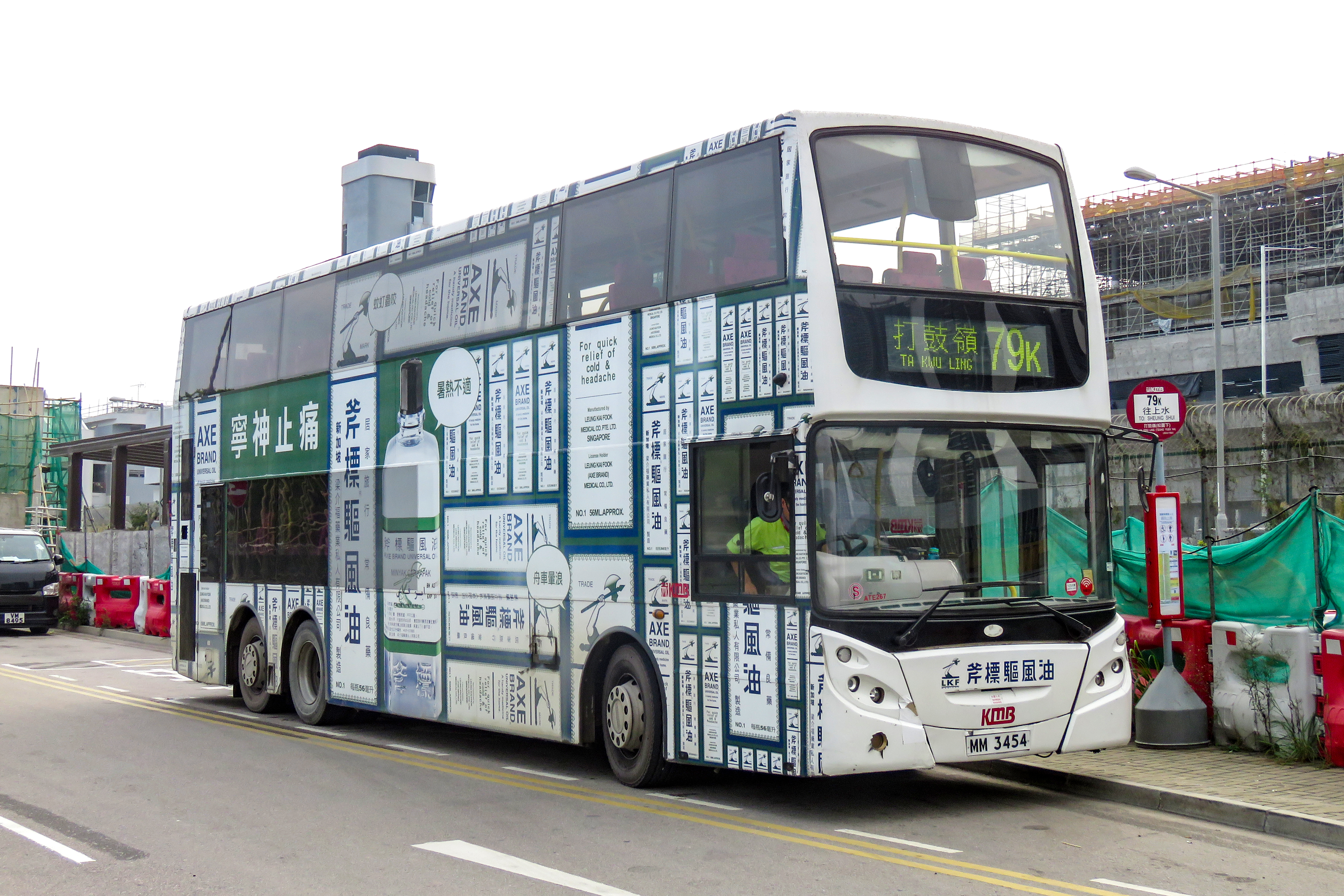 This terminus, adjacent to Liantang Port, is the northernmost bus terminus in Hong Kong. I didn't find the pedestrian tunnel to the border control point.